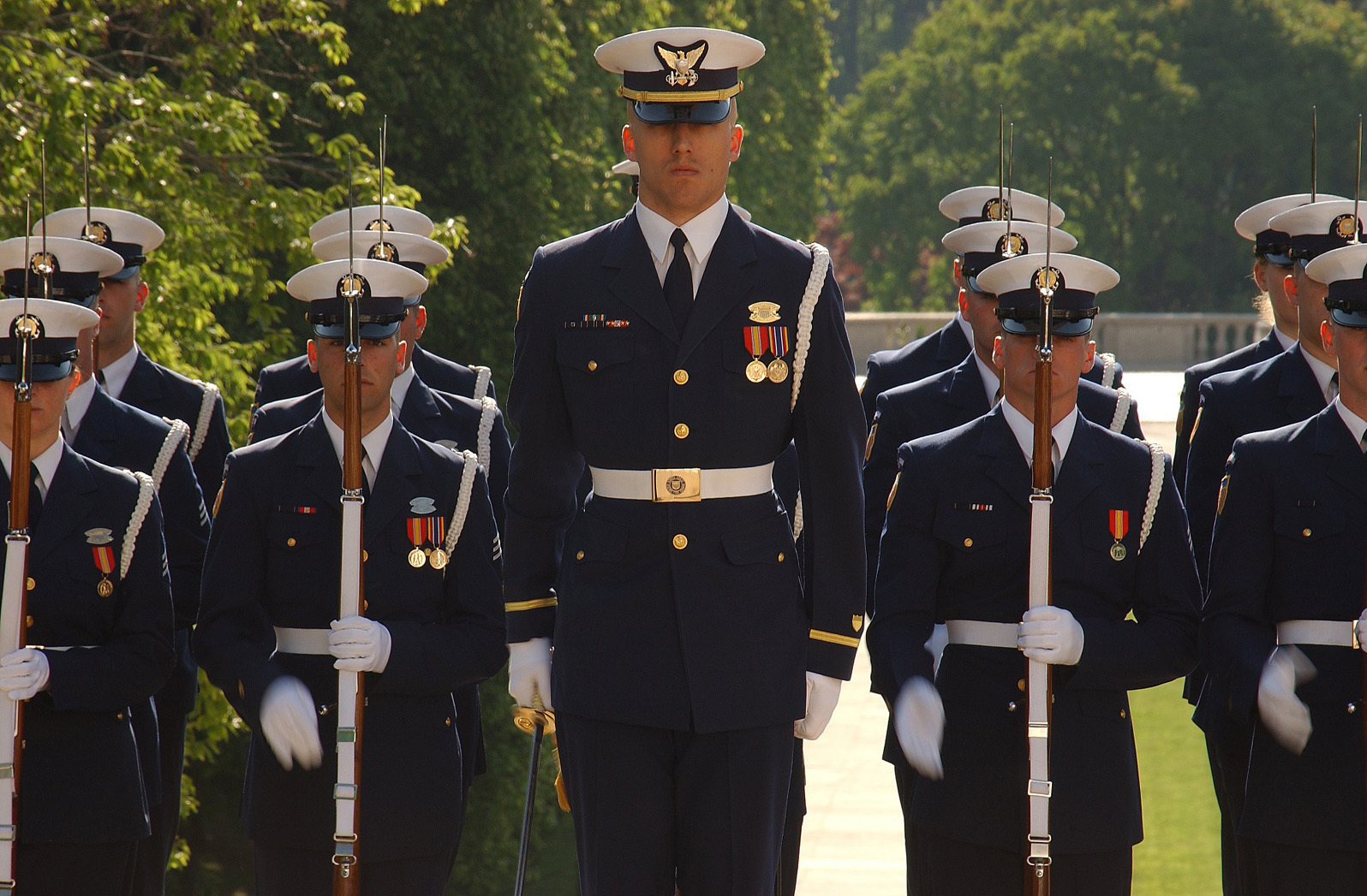 WASHINGTON (May 4, 2006) The Coast Guard Ceremonial Honor Guard conducts military drill at the Tomb of Unknown Soldiers.